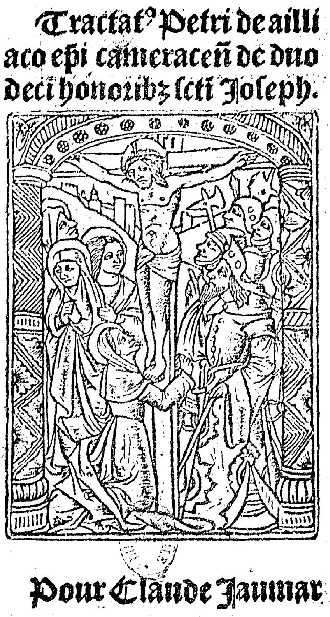 Tractatus from Pierre d'Ailly, printed for Claude Jaumar